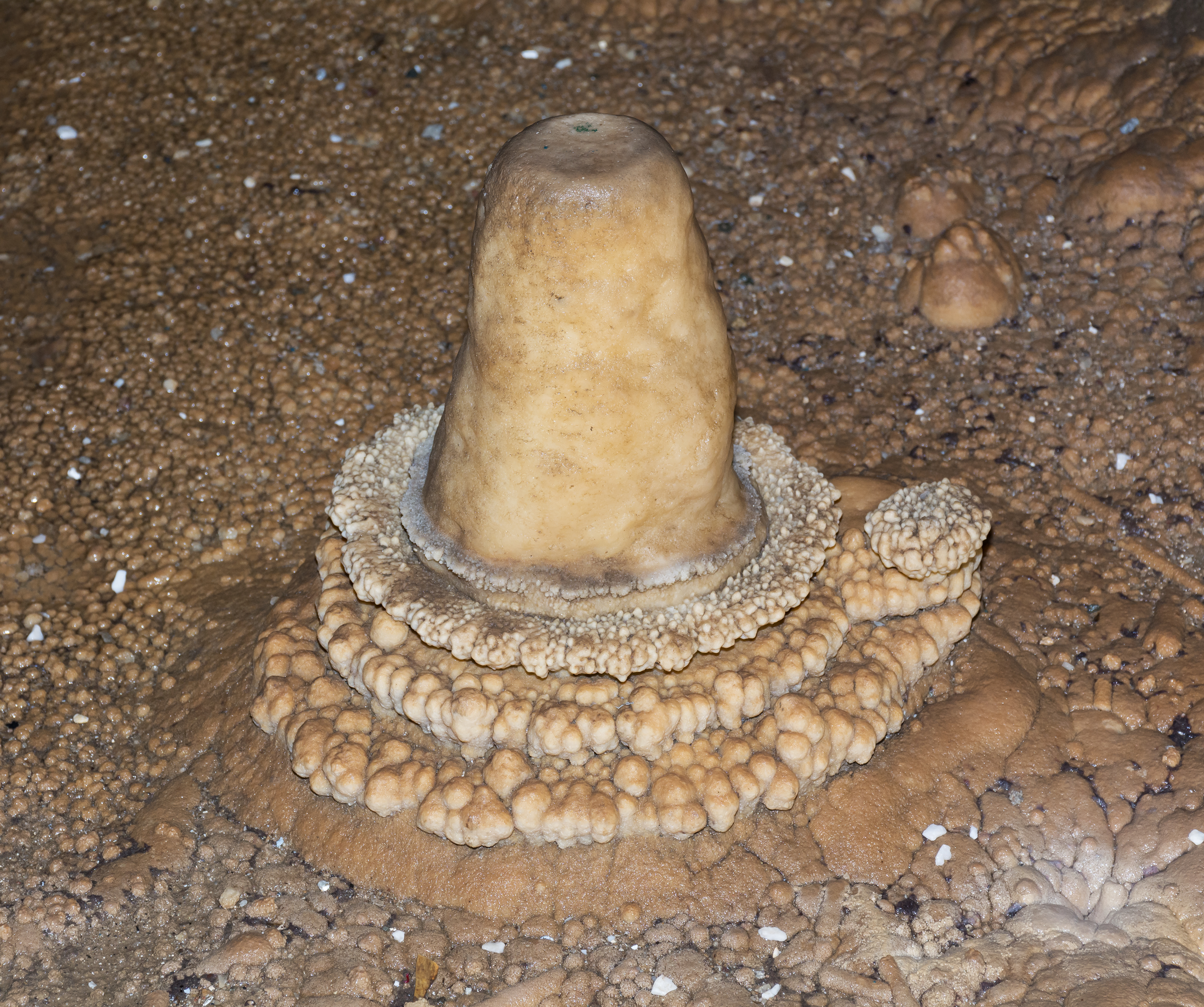 Bear Cave in Kletno (Lower Silesia, Poland), stalagmite This is a photography of Natura 2000 protected area with ID PLH020016